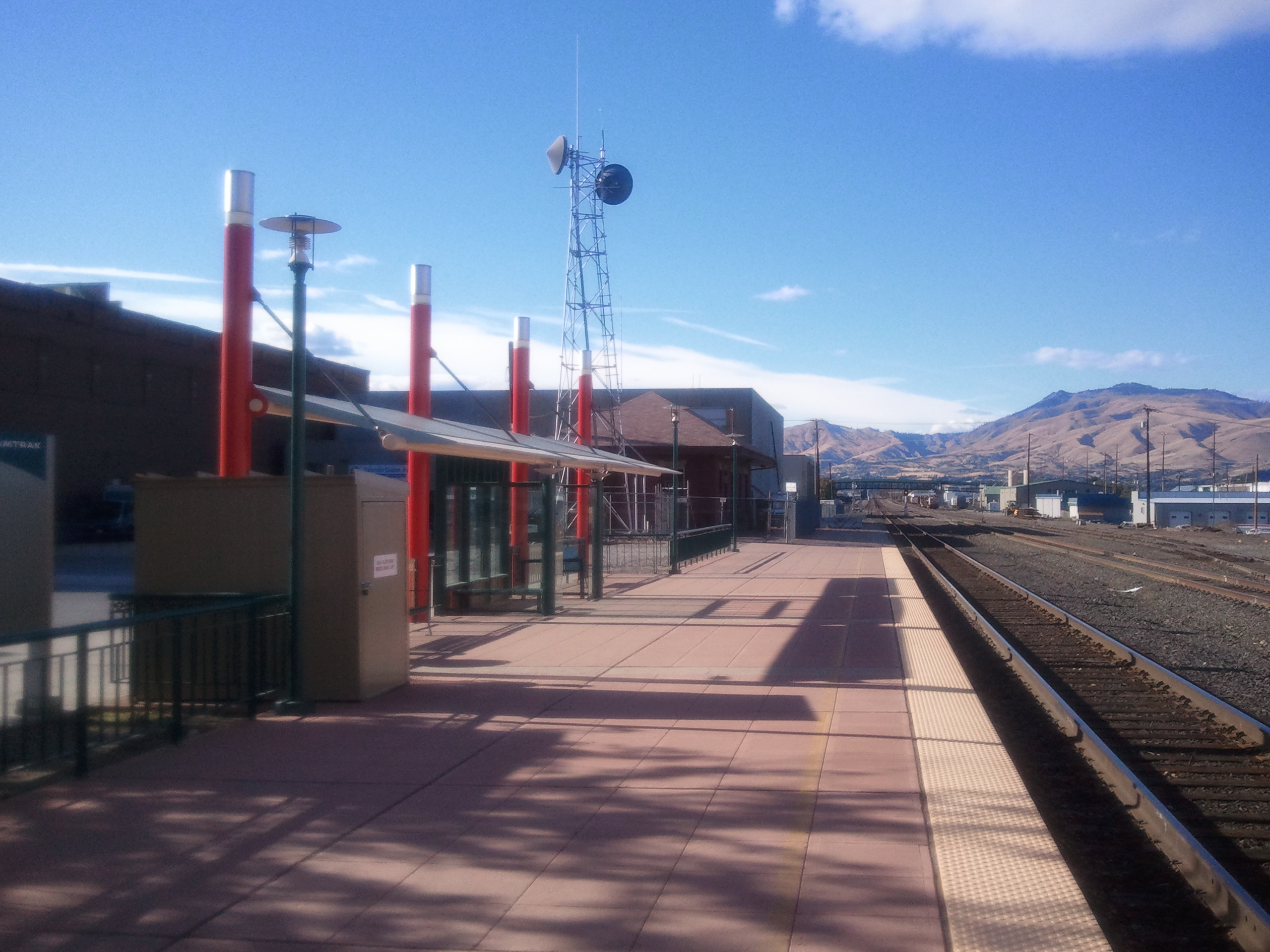 This is the view looking West from the Columbia Station in Wenatchee, WA (WEN). It is one of the regular stops on the Empire Builder line from Chicago, IL to Seattle, WA.